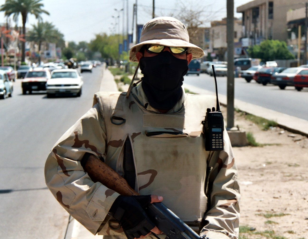 An armed Iraqi interpreter on patrol with U.S. troops on the streets of Baghdad, Iraq (April 2005).